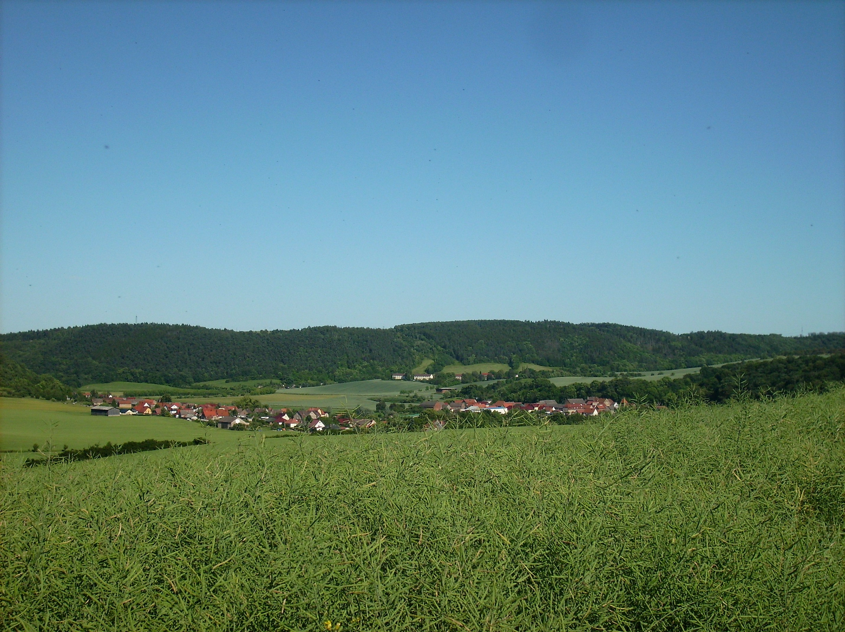 View of the village of Wangen/Unstrut (Nebra, district of Burgenlandkreis, Saxony-Anhalt)